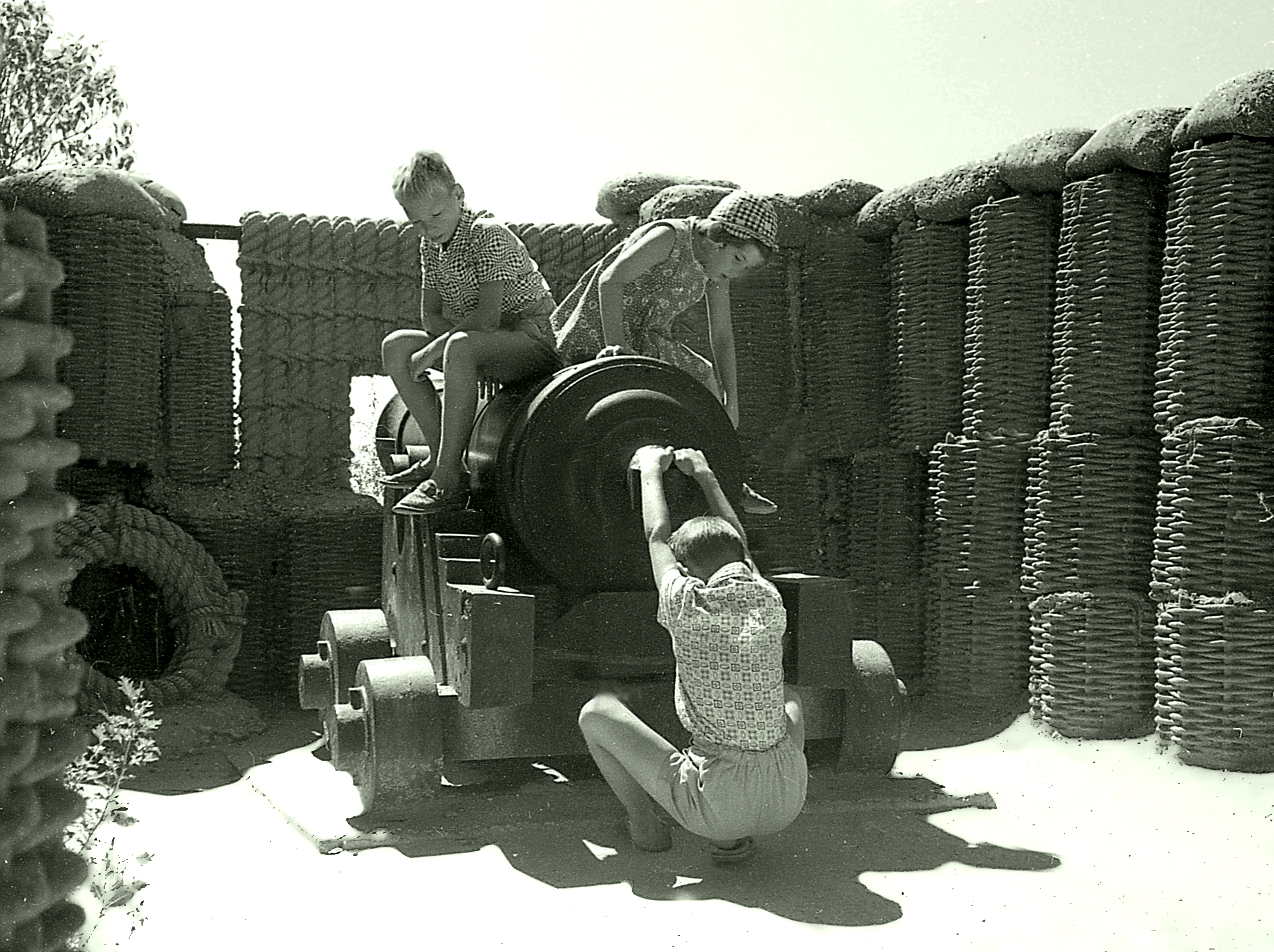 Gun emplacement used during the Battle of Malakoff, near Sevastapol.